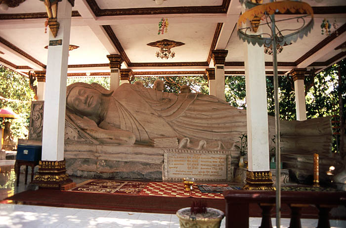 Wat near Ream Naval Base, Ream National Park, Cambodia